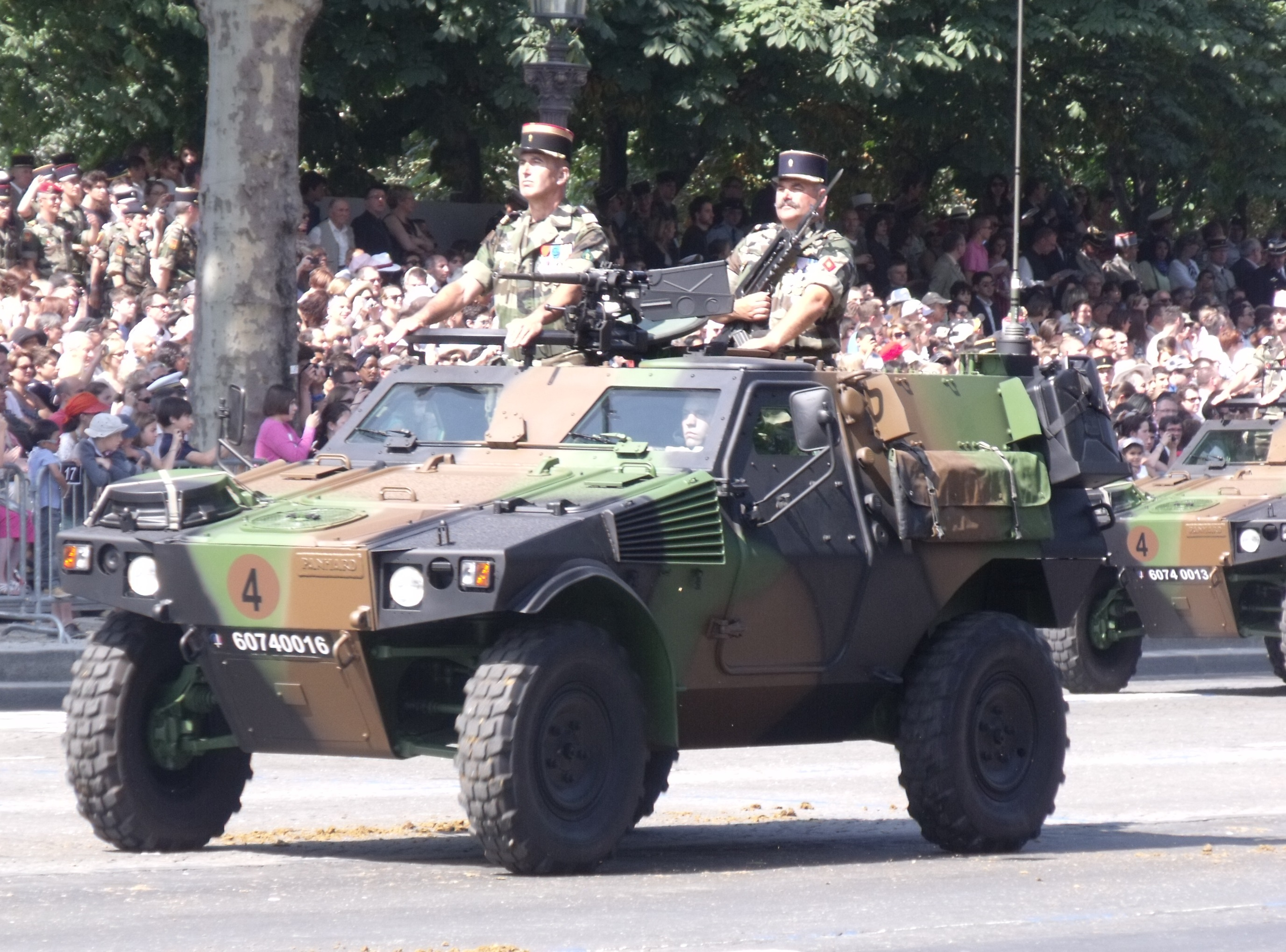 french army Véhicule Blindé Léger.